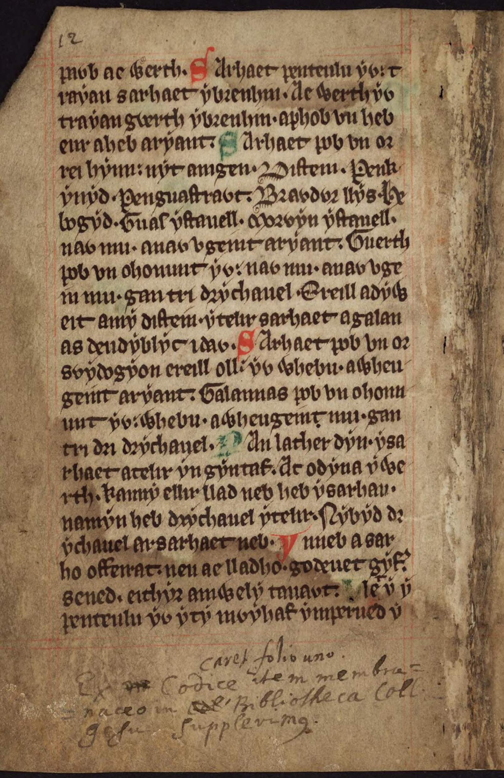 This small Welsh manuscript dates from the second half of the 14th century, and contains the Dyfed version of native Welsh law.